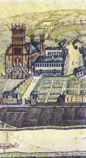 Benedictine abbey St. Matthias outside of the city walls of Trier in or after 1783